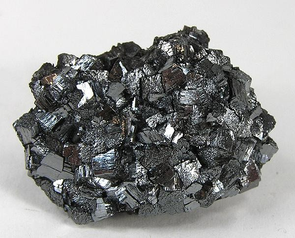 Ramsdellite Locality: Mistake Mine (Box Canyon deposits), Sam Powell Peak, Box Canyon District, Yavapai County, Arizona, USA (Locality at ) Size: 3.5 x 2.4 x 0.8 cm. Ramsdellite is a rare manganese oxide. This is an intergrown plate of equant, splendent, black ramsdellite crystals to 5 mm across. Ramsdellite from this small and defunct mine in a remote corner of Arizona was first found, I am told, in the early 1900s. However, the locality was apparently lost for some time and only rediscovered by the father/son team of Roy Jones and Dick Jones in the 1960s. Some of this material came out then (Roy says about 6 flats). This recent find appeared literally in the middle of the Tucson show. It features very fine quality Ramsdellite crystals on manganese-rich matrix, and the crystals have excellent lustre and jet-black color to them. There was an old MR article about the Mistake Mine in one of the Arizona issues, and also this is referenced in Mineralogy of Arizona by Bideaux, et al.